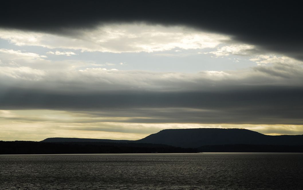 Mt. Nebo in the distance looking from the north side of Lake Dardanelle